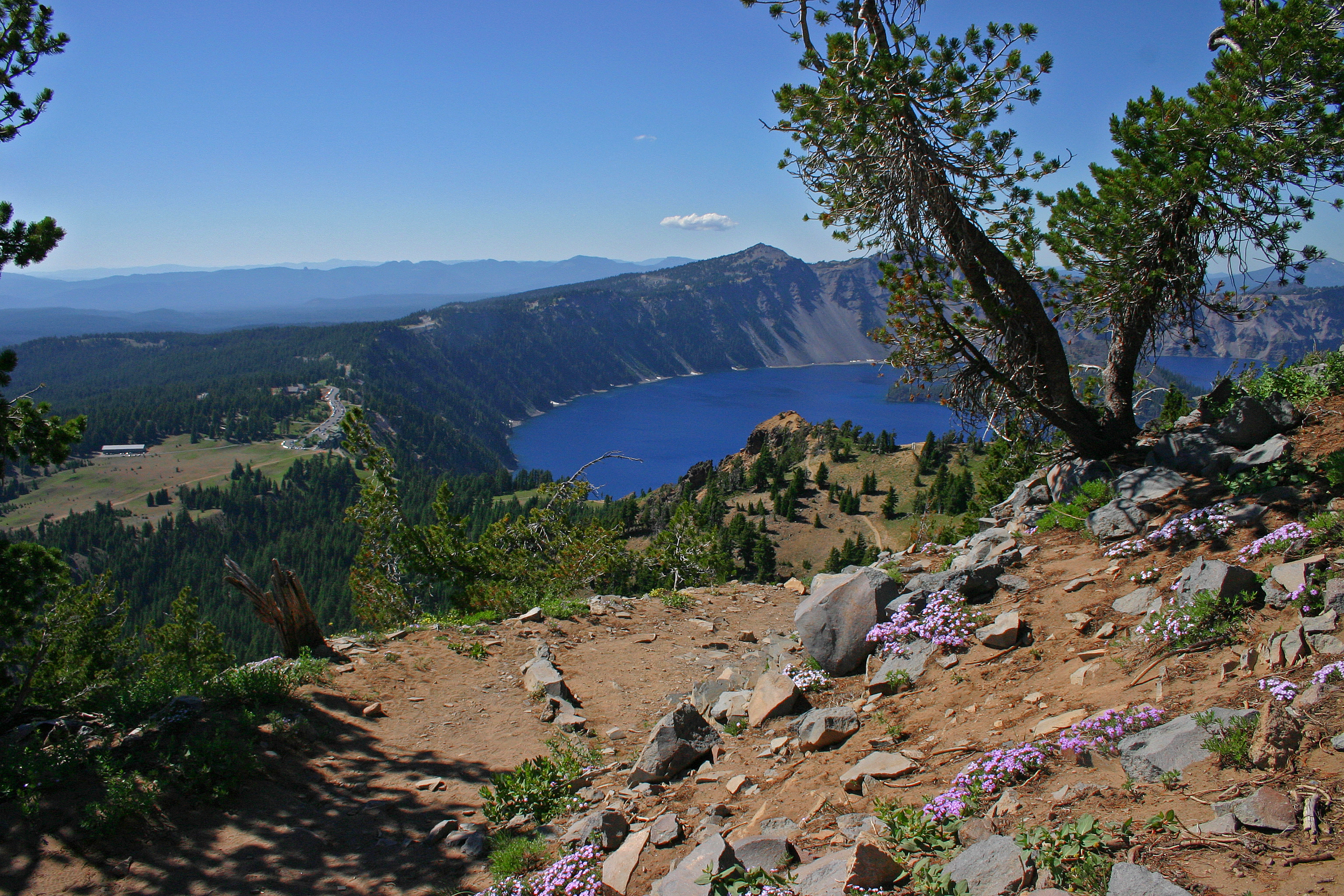 View of Rim village from Garfield Peak Trail, Crater Lake National Park.